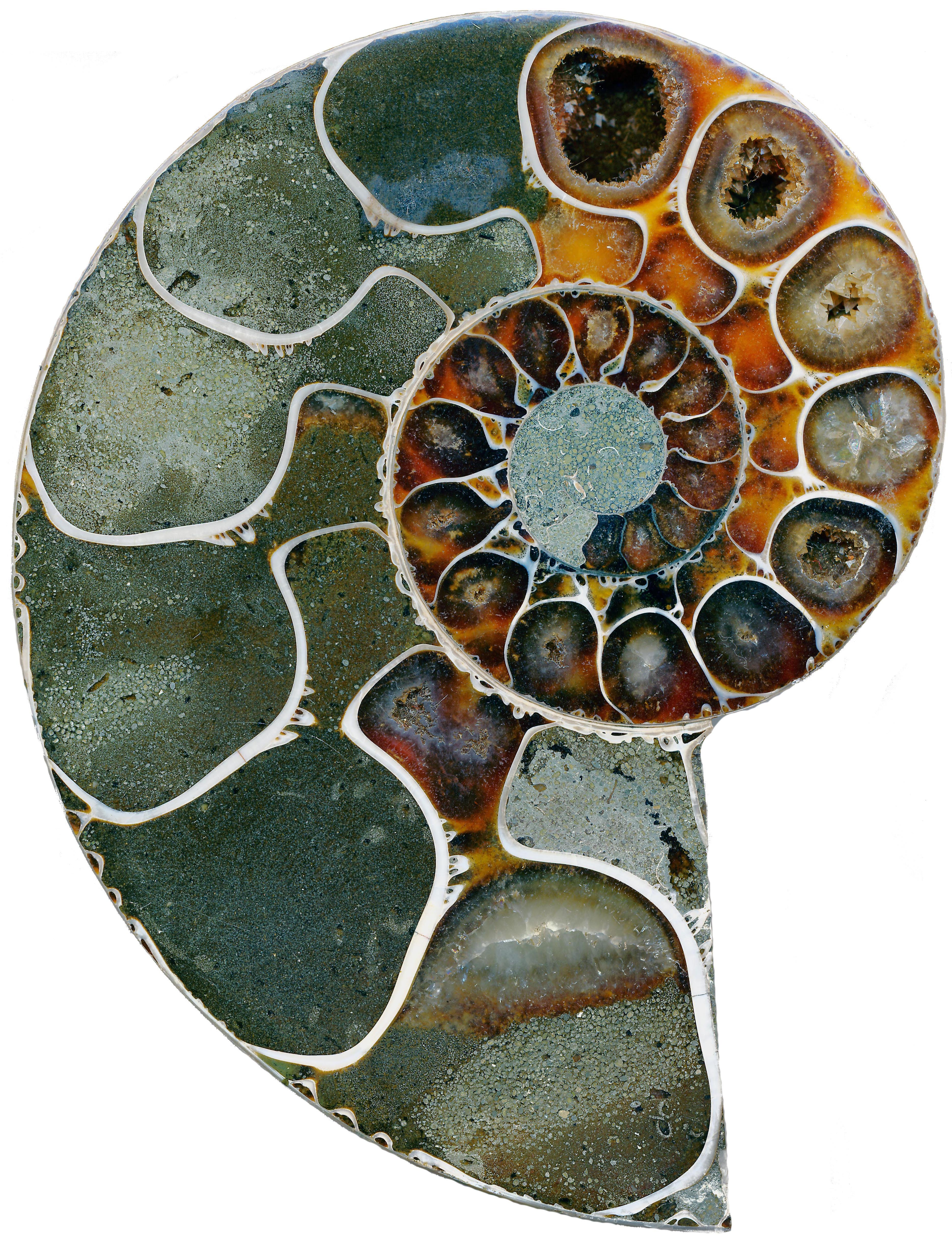 phragmocone of Argonauticeras from Cretaceous deposits of Madagascar, median section